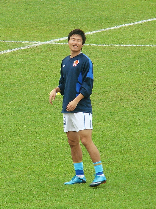 Gao Lin